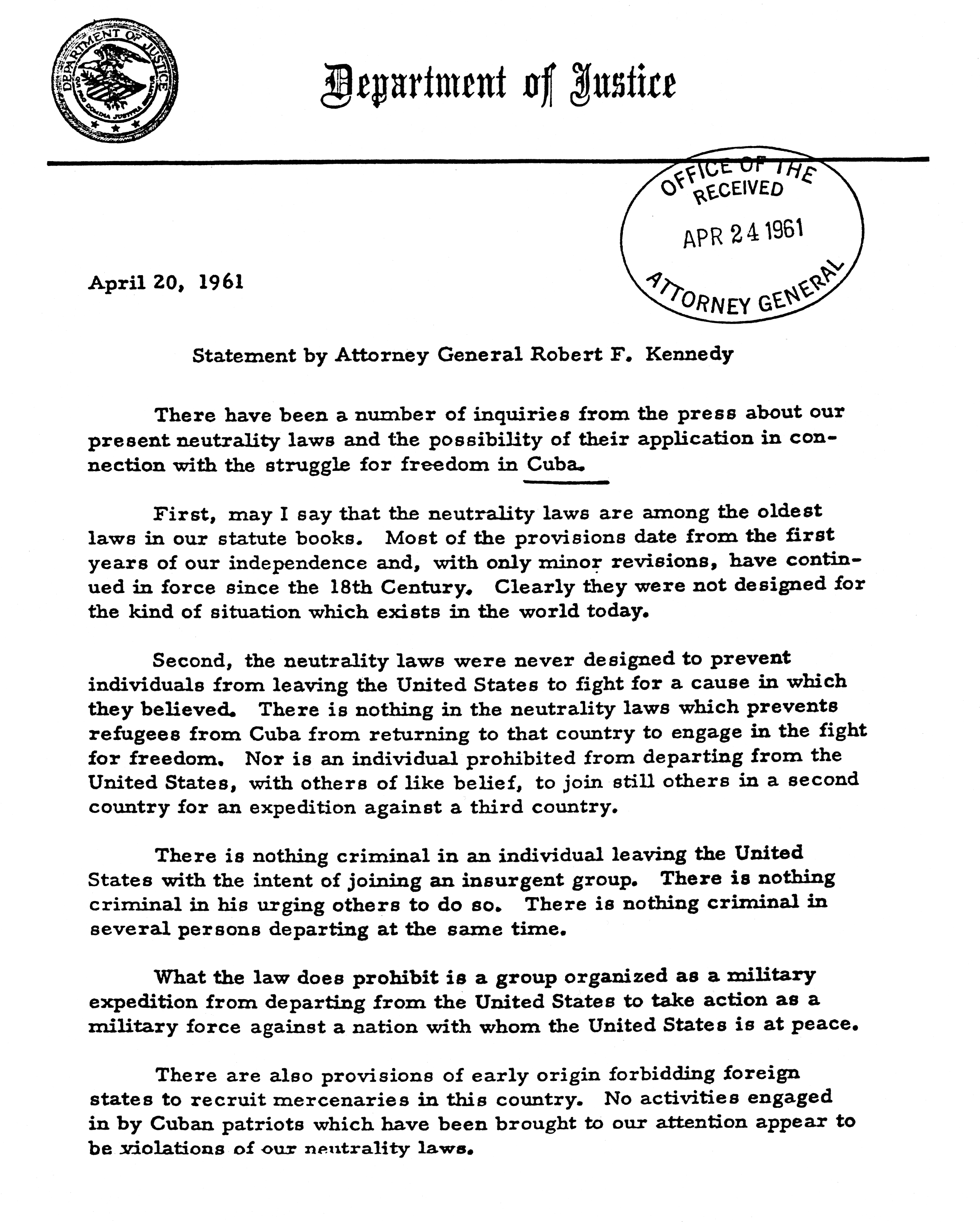 Robert F. Kennedy's comments on the neutrality laws and the struggle for freedom in Cuba.